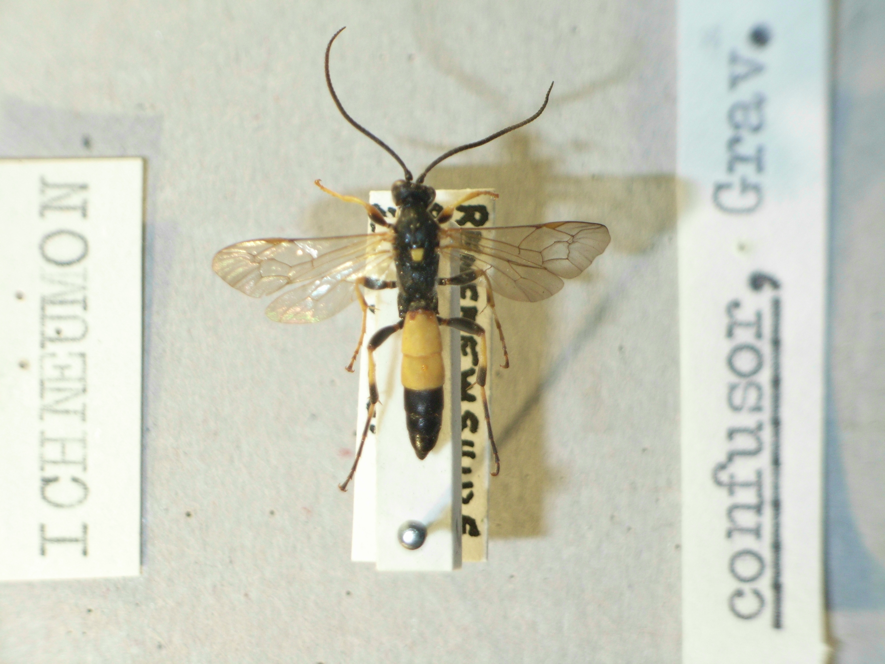 Ichneumon confusor